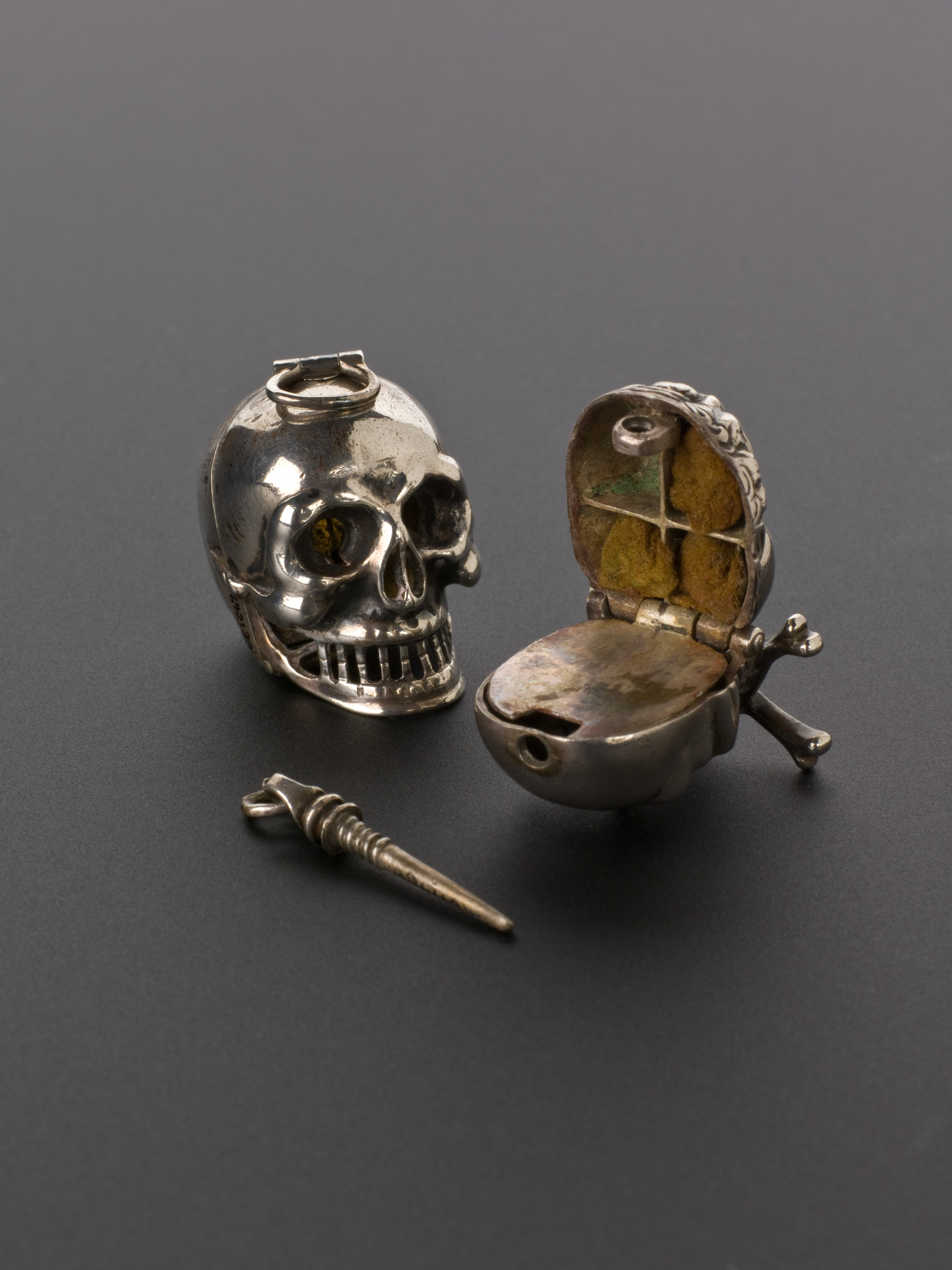 Likes pomanders, vinaigrettes could be used as a vessel to hold strong smelling substances to be sniffed should the user be passing through a particularly smelly area. At a time when miasma theories of disease – the idea that disease was carried by foul air – were dominant, carrying a vinaigrette was considered a protective measure. Vapours from a vinegar-soaked sponge in the bottom were inhaled through the small holes in the top of the ‘acorn’. If a person felt faint they could also sniff their vinaigrette and the sharp vinegar smell might shock the body into action. The skull was probably hung from a piece of cord or necklace and carried at all times. It is shown here with another skull-shaped example (A641486). maker: Unknown maker Place made: Europe Medical Photographic Library Keywords: pomander; vinaigrette